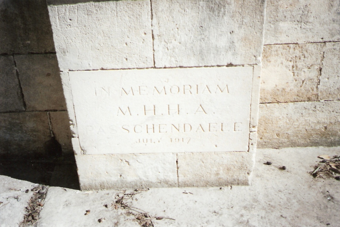 memorial to Michael Allenby, Haifa, Israel